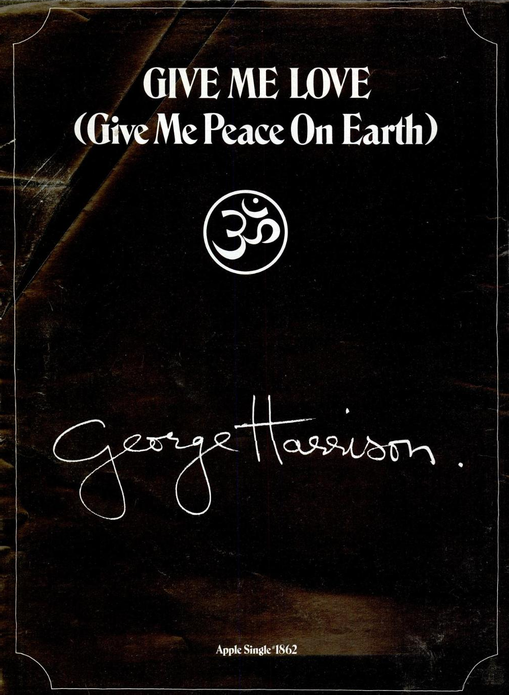 Trade ad for George Harrison's single "Give Me Love".